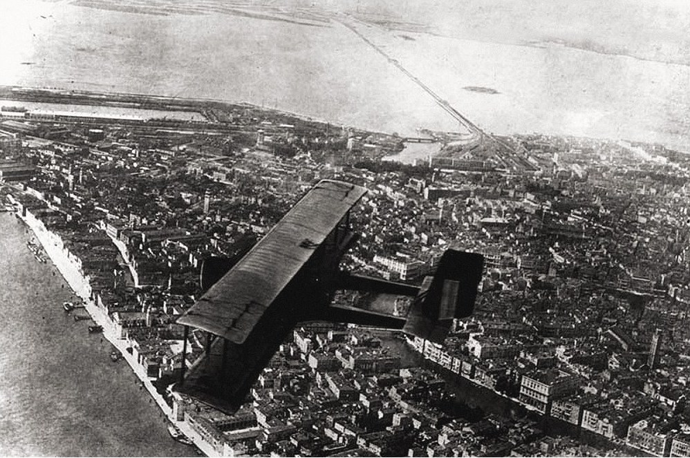 A nice picture of a Caproni Ca.3 flying over Venice